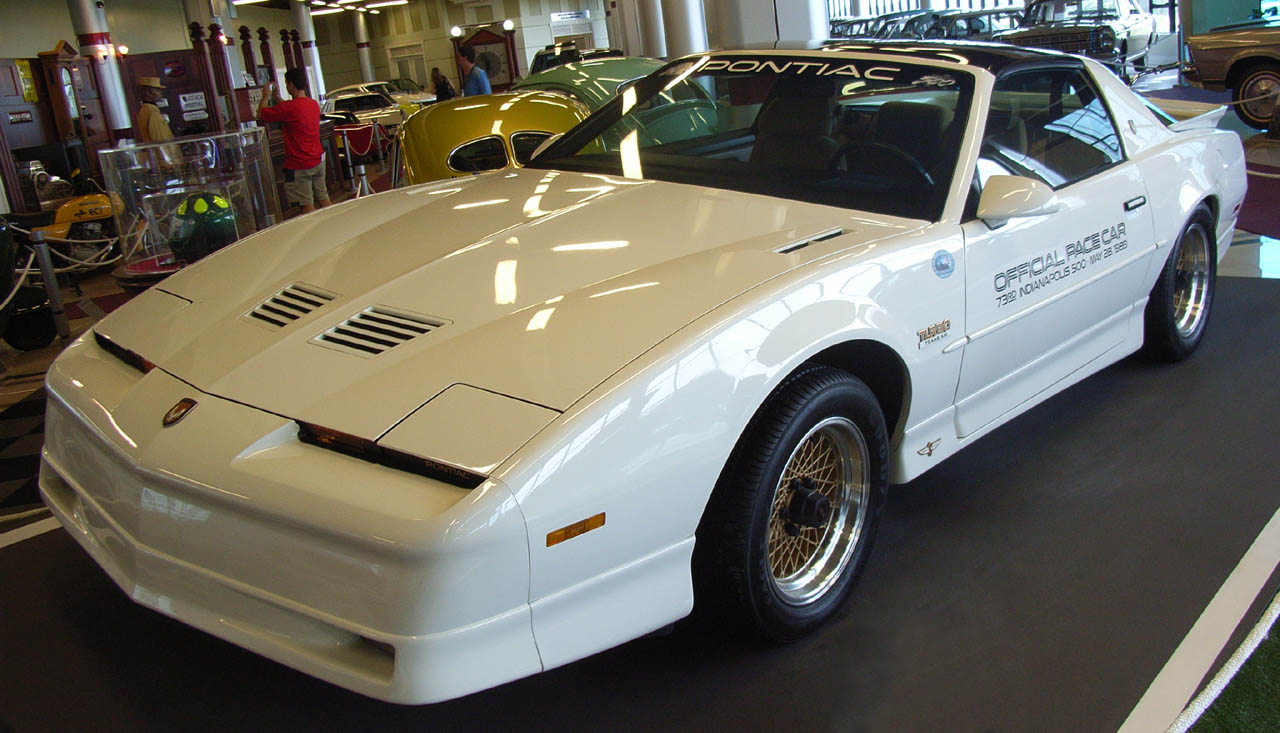 1989 Indianapolis 500 pace car: Pontiac Trans Am (Driver: Bobby Unser). The winning driver of the race in this year, Emerson Fittipaldi got it as a prize after the race.Owner: Museu da Tecnologia da Ulbra